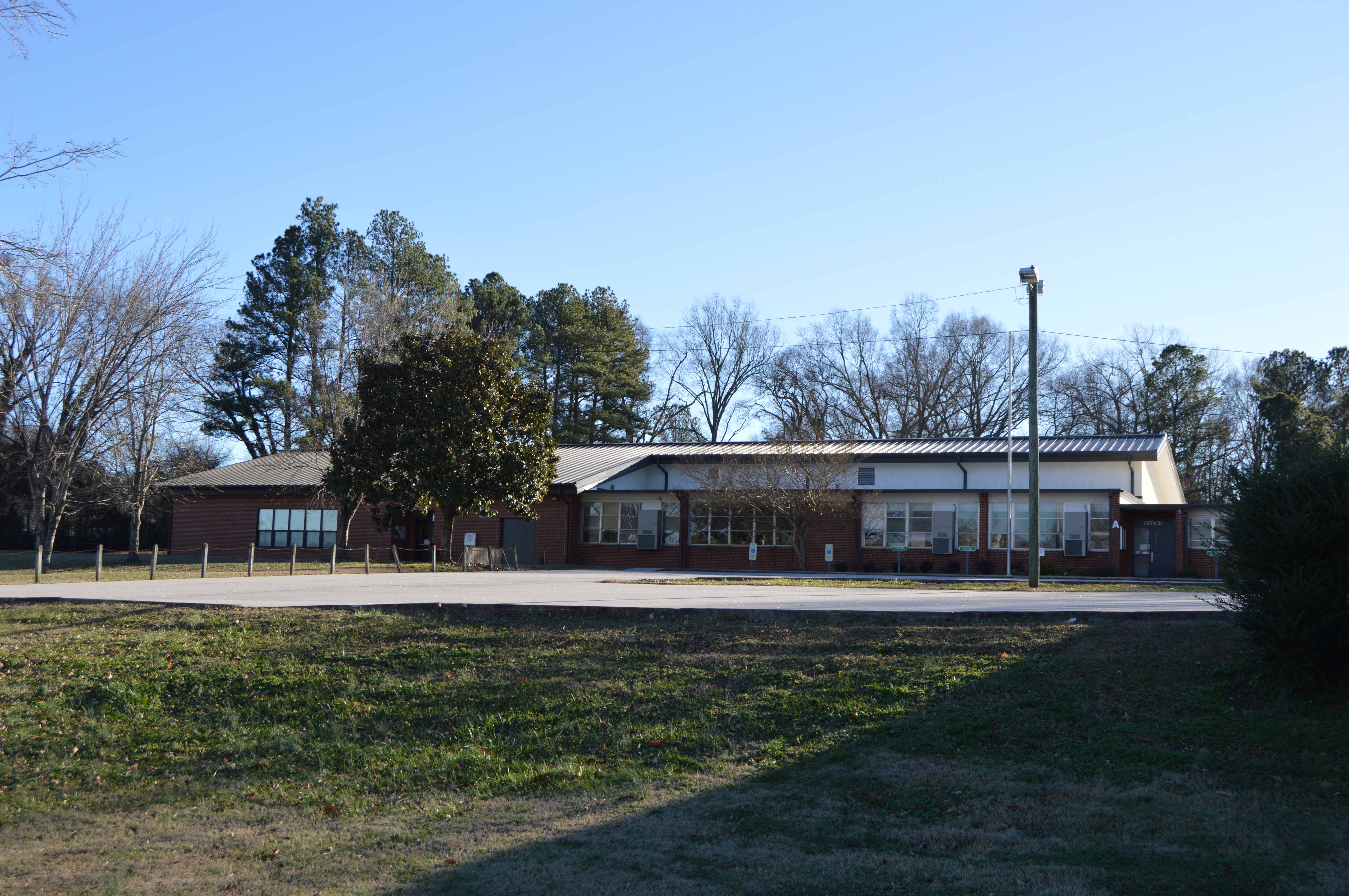 Front of the former Franklin County Training School, located at 53 W. River Road in Louisburg, North Carolina, United States. Built in 1951, it is listed on the National Register of Historic Places.